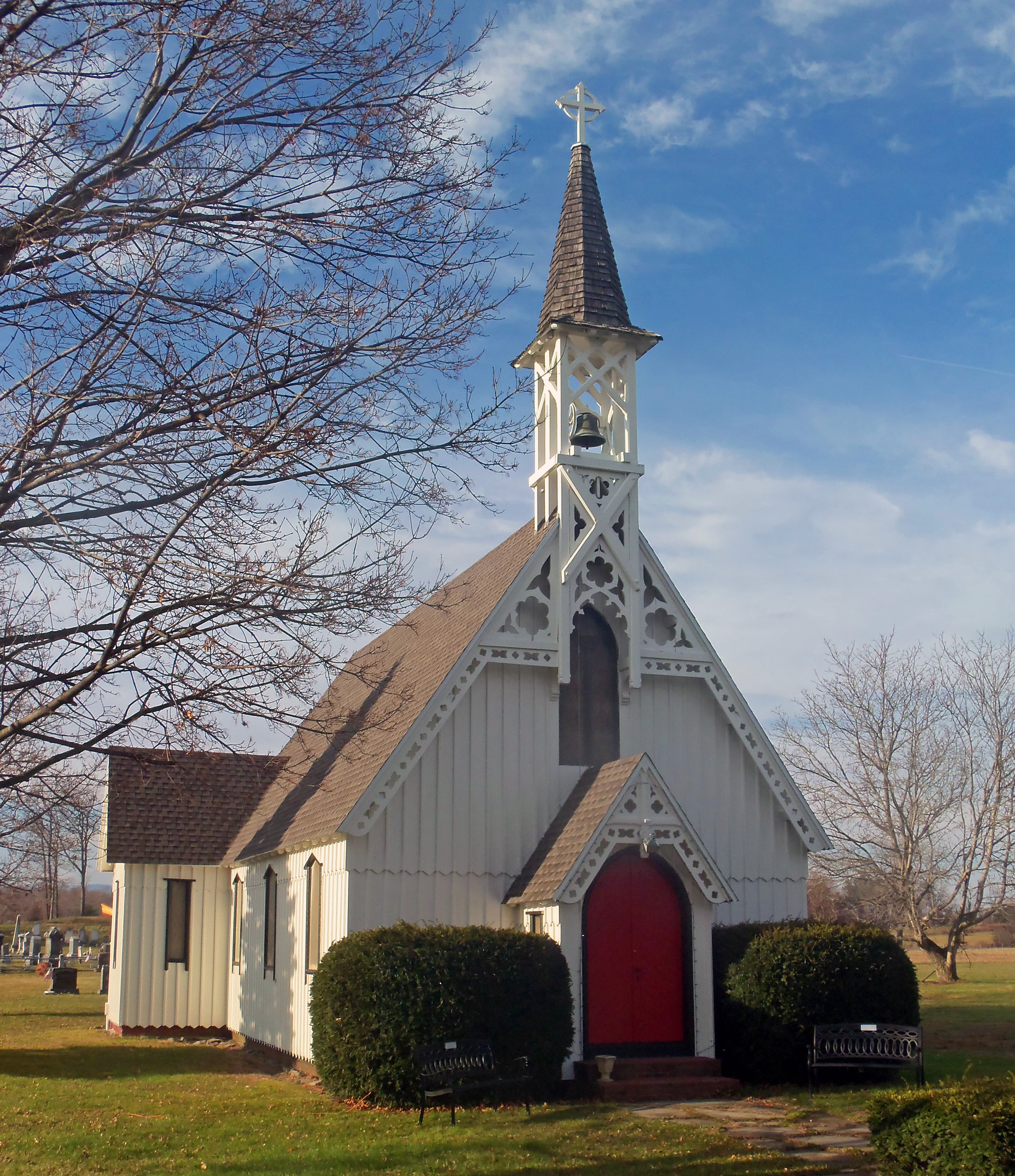 Former St. Luke's Church, Clermont, NY, USA